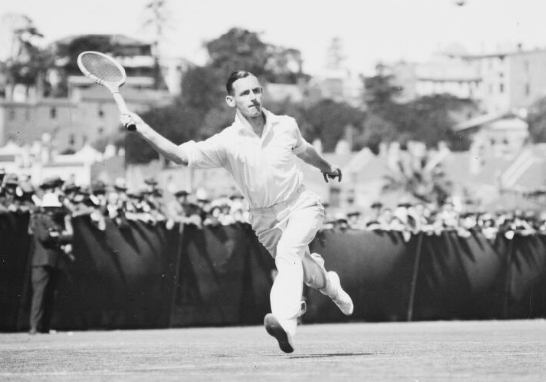 Australian tennis player Ray Dunlop hitting a forehand during a match in Sydney, 19 January 1932